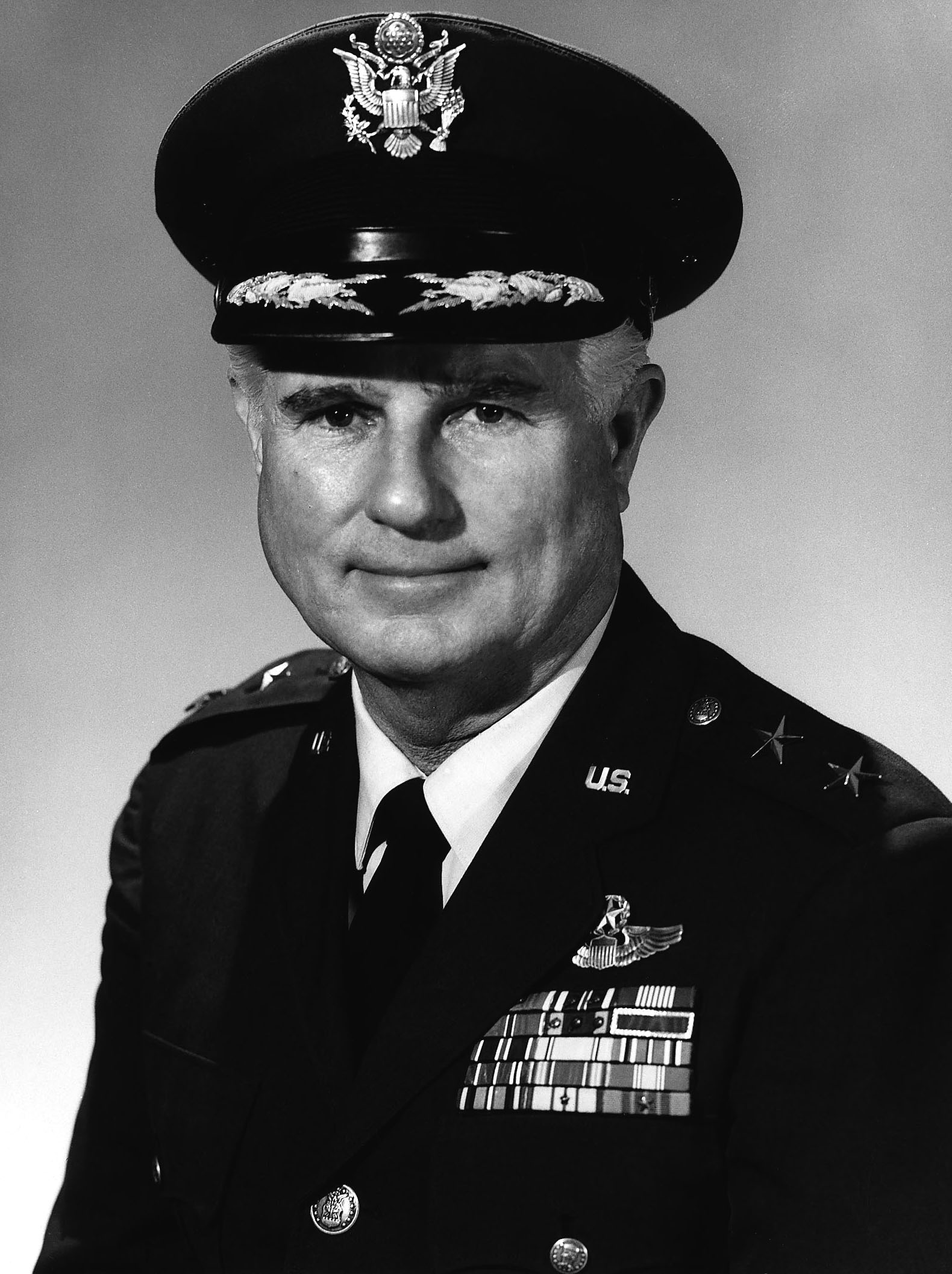 Maj. Gen. Allison C. Brooks, United States Air Force photo #060612-F-JZ507-039